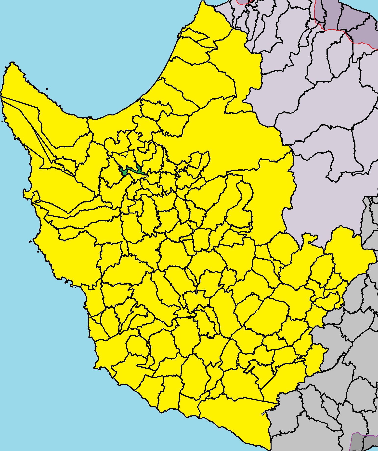 Choli in Paphos District.